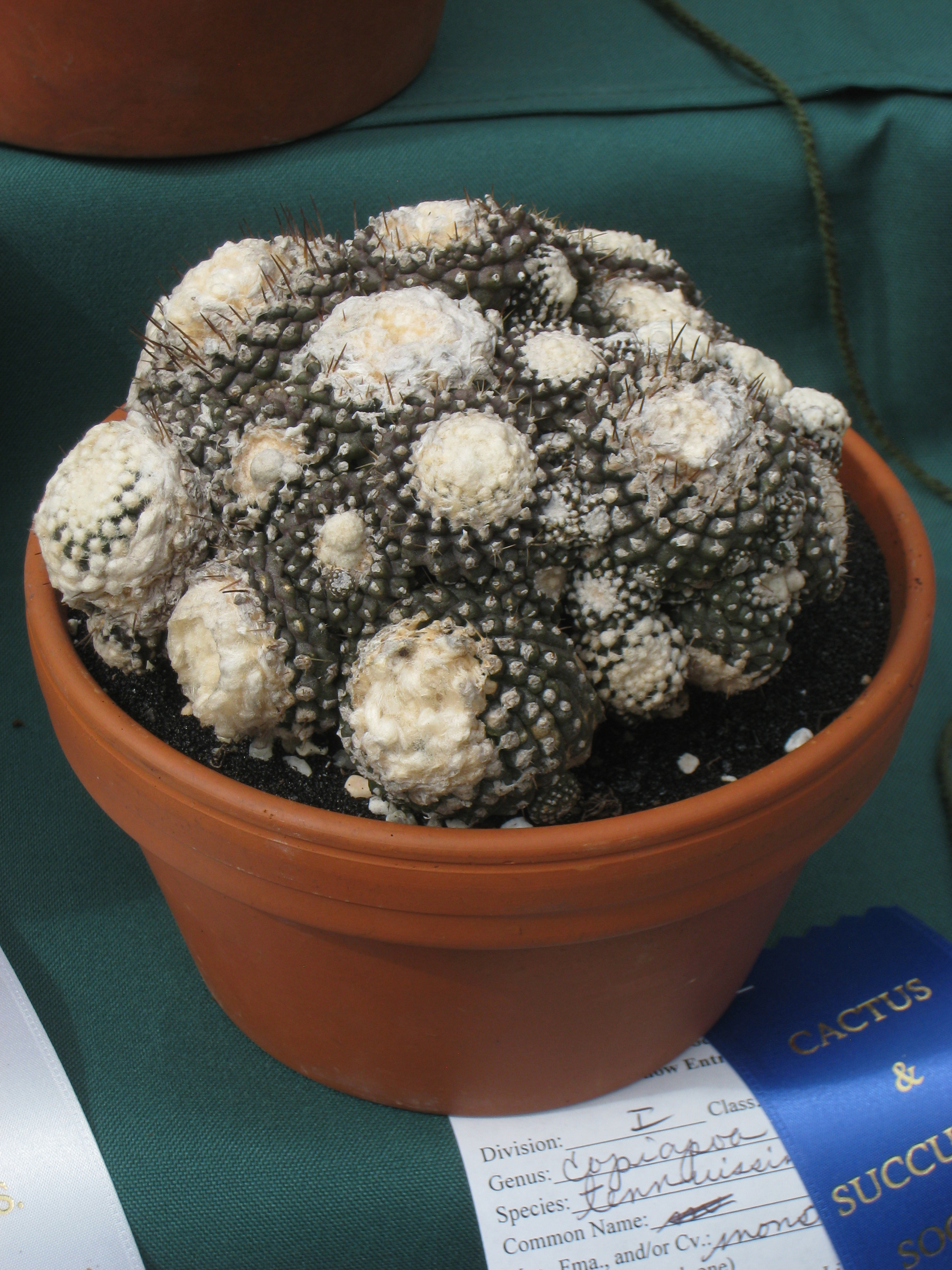 Copiapoa humilis subsp. tenuissima, in the Tower Hill Botanic Garden, Boylston, Massachusetts, USA.